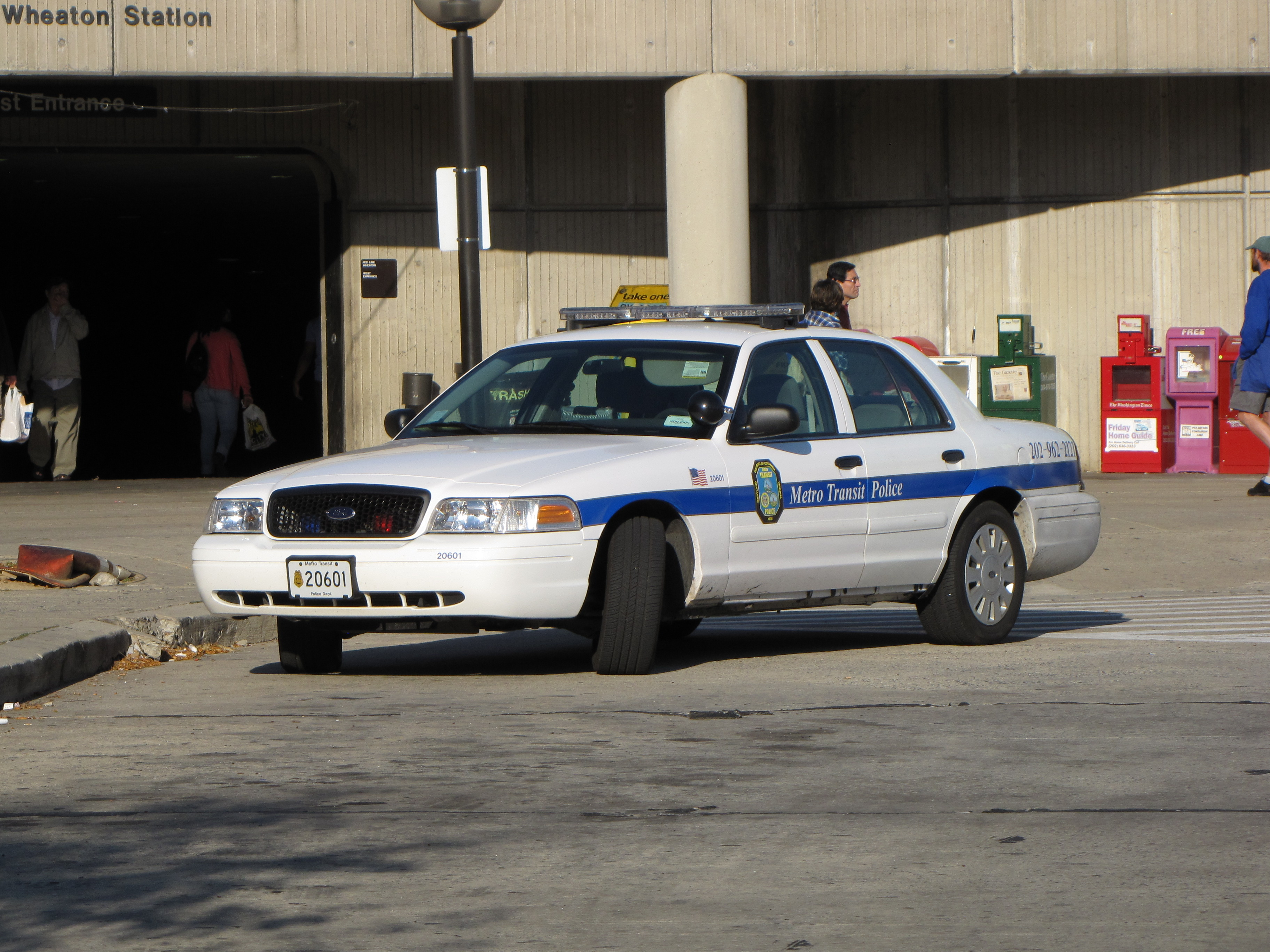 Metro Transit Police Department Crown Victoria at Wheaton station.